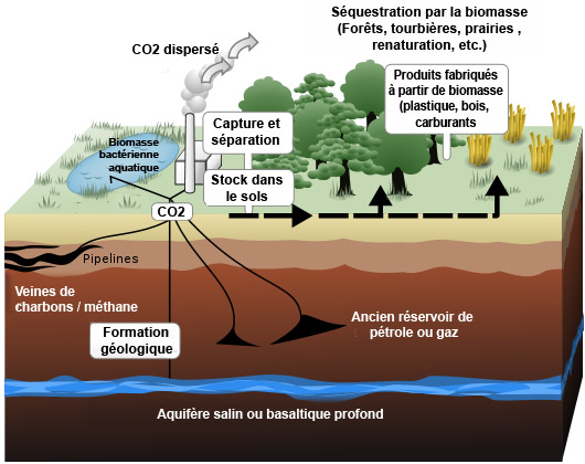 Schematic showing both terrestrial and geological sequestration of carbon dioxide emissions from a coal-fired plant. Rendering by LeJean Hardin and Jamie Payne.